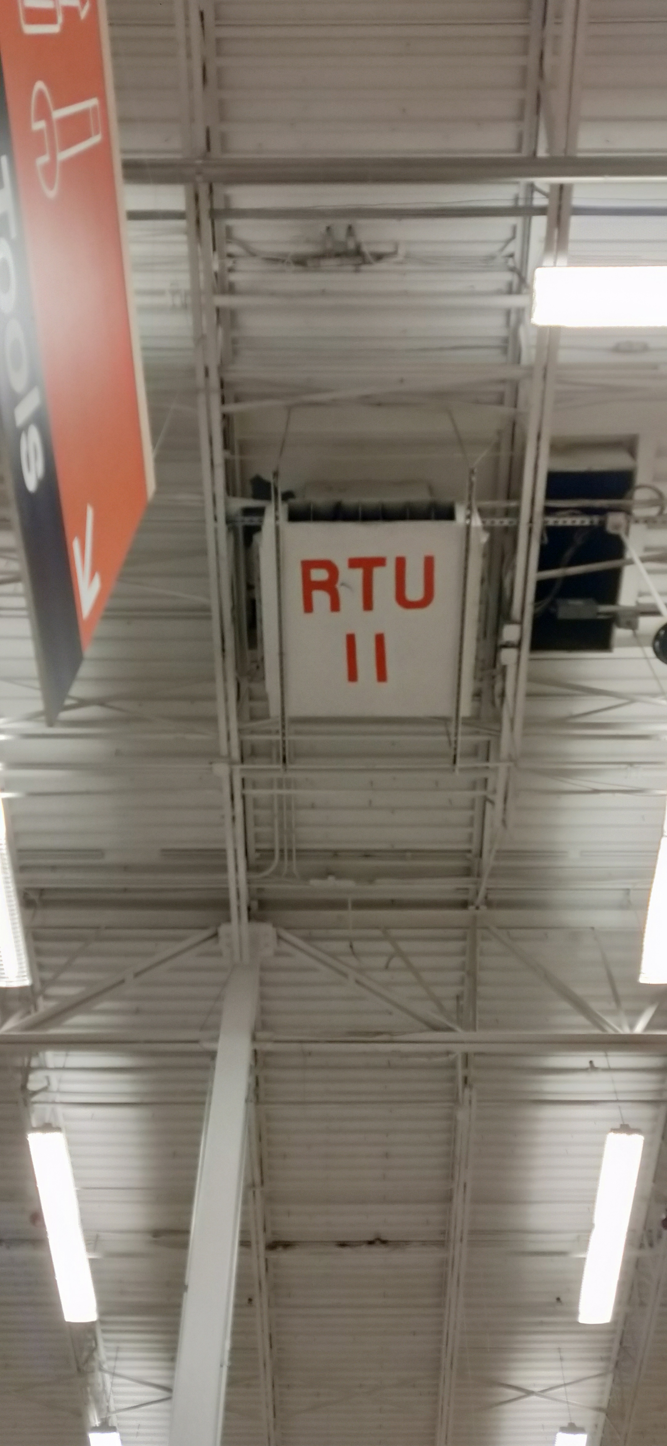 A RTU inside